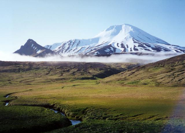 Snow-covered Little Sitkin volcano rises beyond Williwaw Cove on the NW side of the island. The sharp-topped unnamed peak at the left is part of the Williwaw Cove Formation, consisting of Tertiary to Quaternary lava flows. Two nested calderas lie between this peak and historically active Little Sitkin; the younger of these may be of early Holocene age. The older Pleistocene caldera, whose low rim lies just beyond the thin cloud bank in the center, may have once contained a caldera lake.